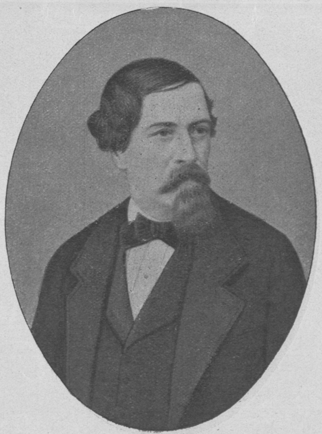 August Prinzhofer (1817–1885), Austrian painter and lithographer.